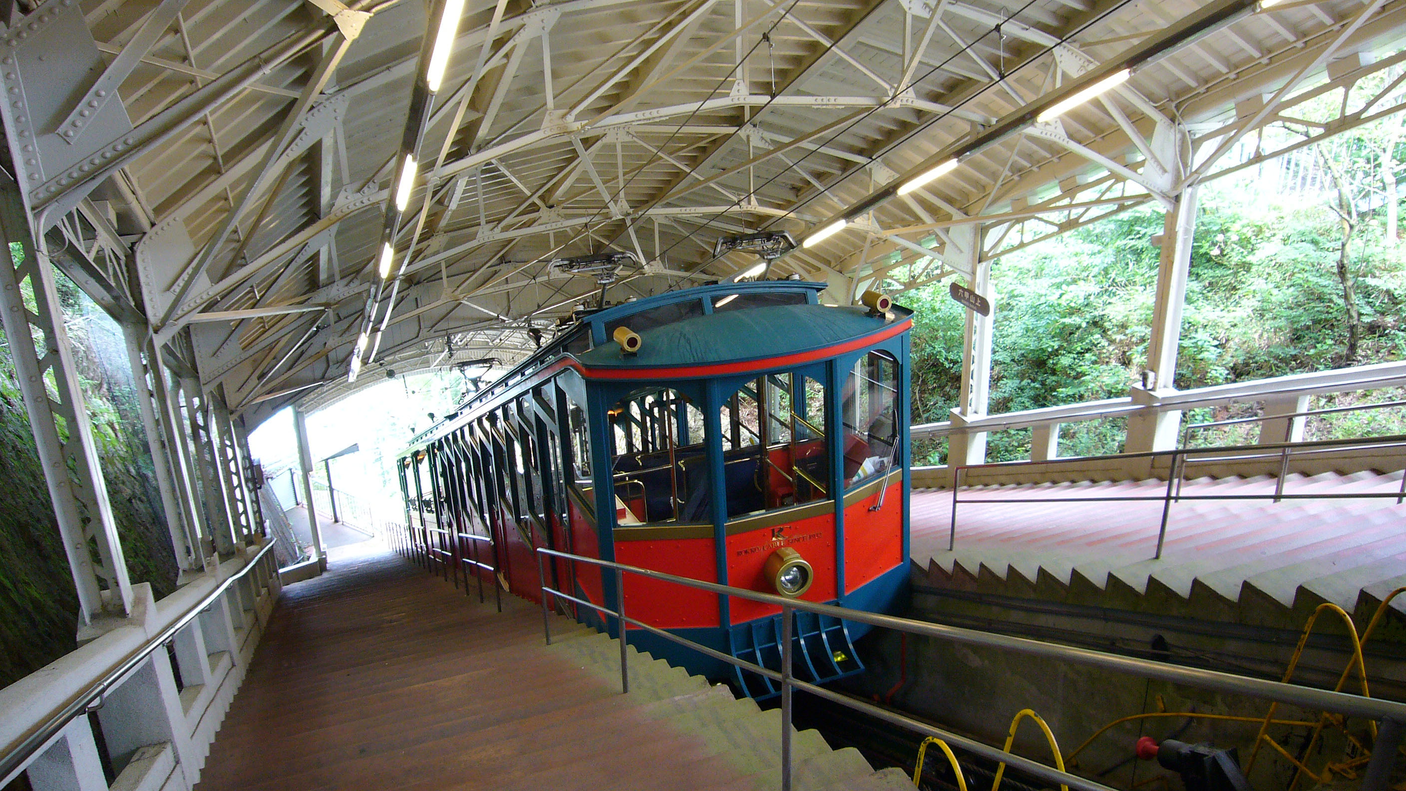 Rokko Cablecar in Kobe, Japan